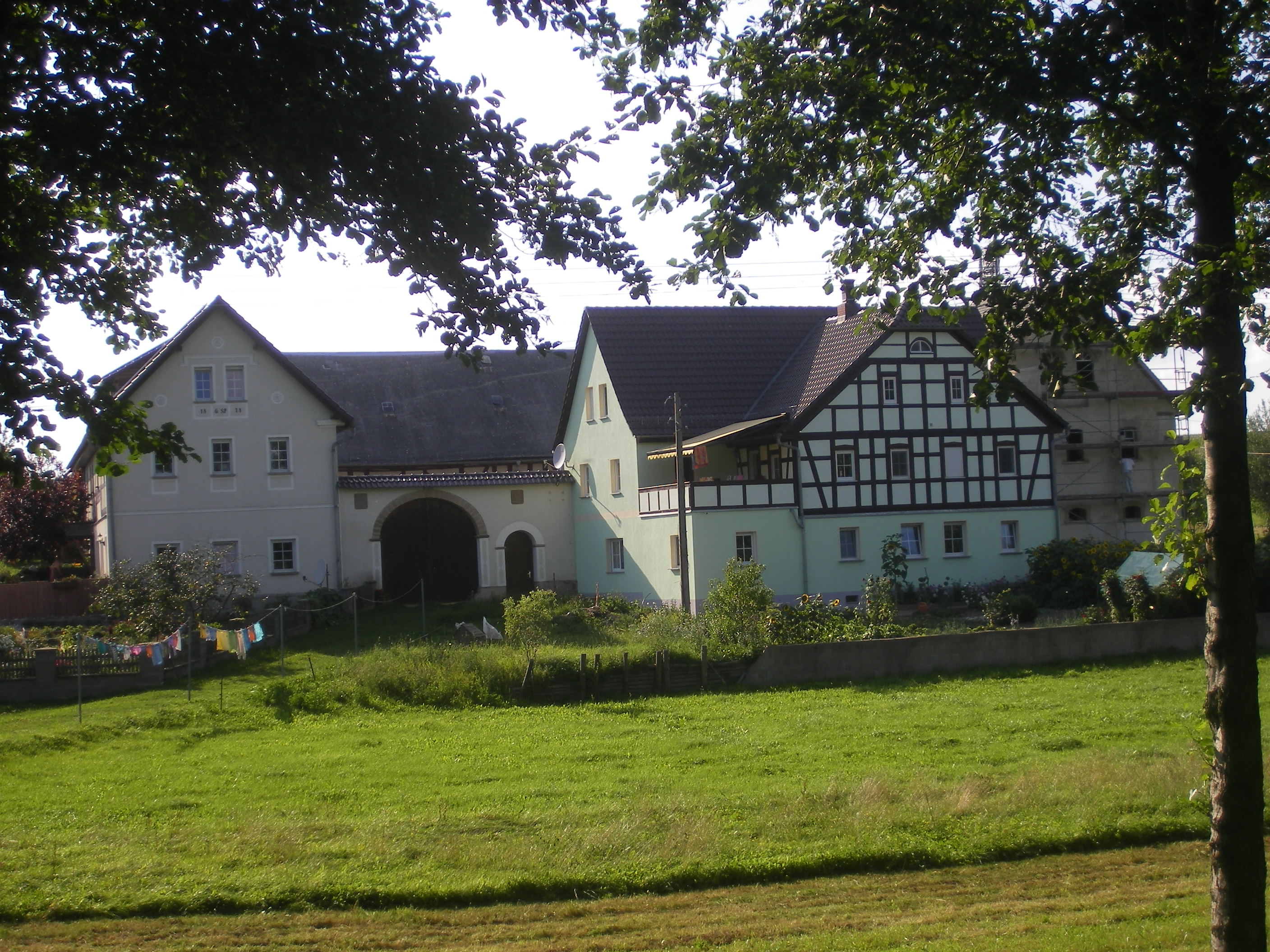 Estate in Heukewalde near Gera/Thuringia